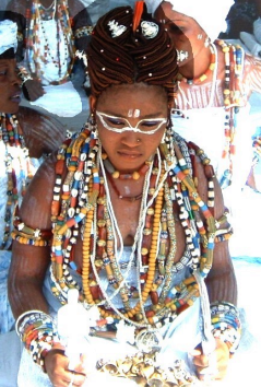 Mami Wata priestess. Lome, Togo, West Africa 2005